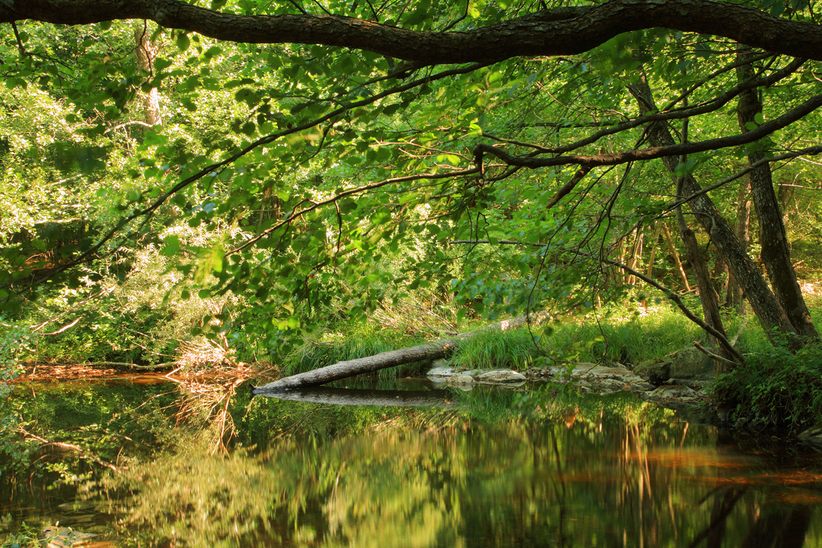 Oryashka river, Tisovitsa reserve, Strandha Mountain, Bulgaria.